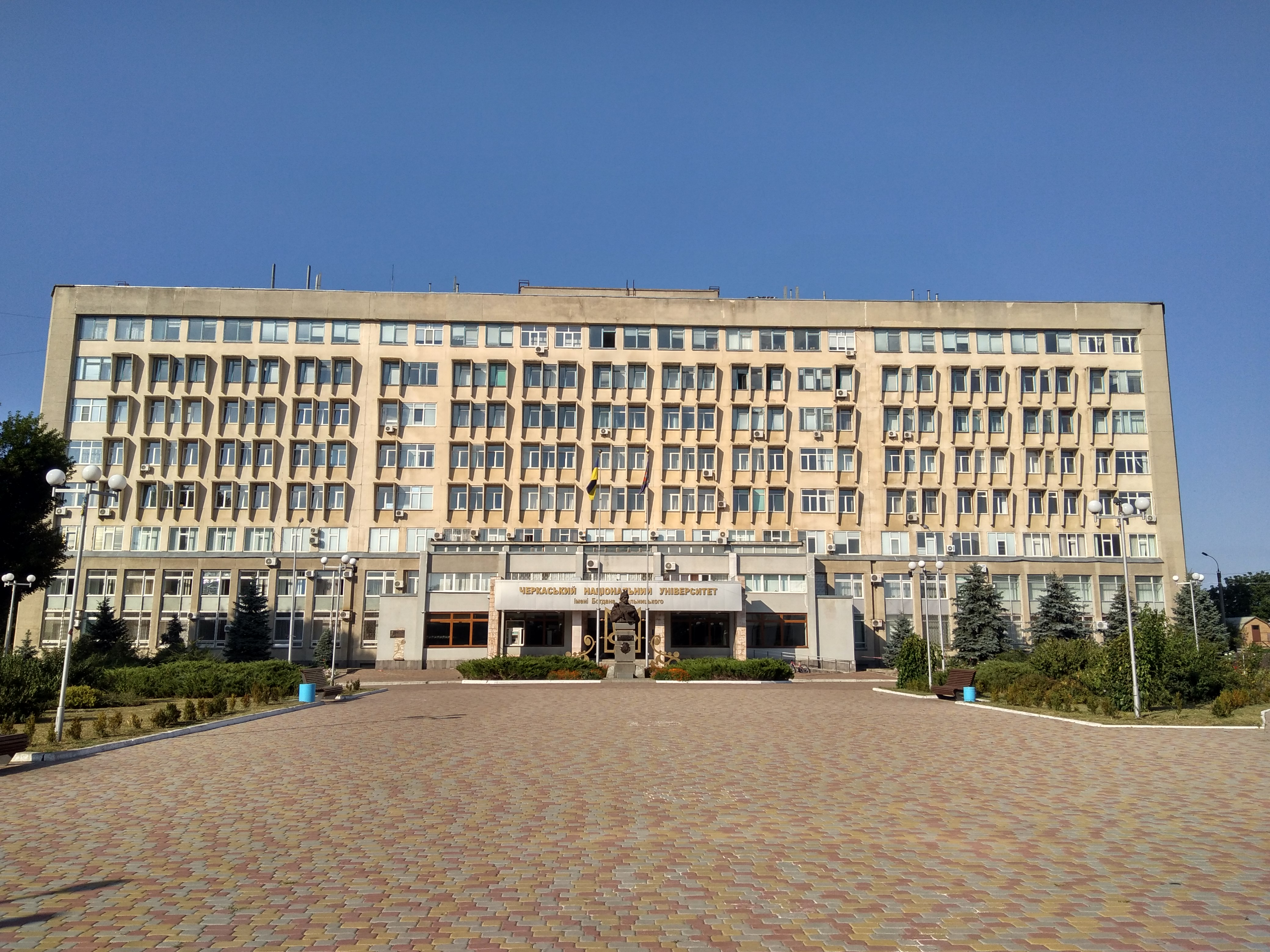 The Bohdan Khmelnytsky National University of Cherkasy. Cherkasy, Ukraine